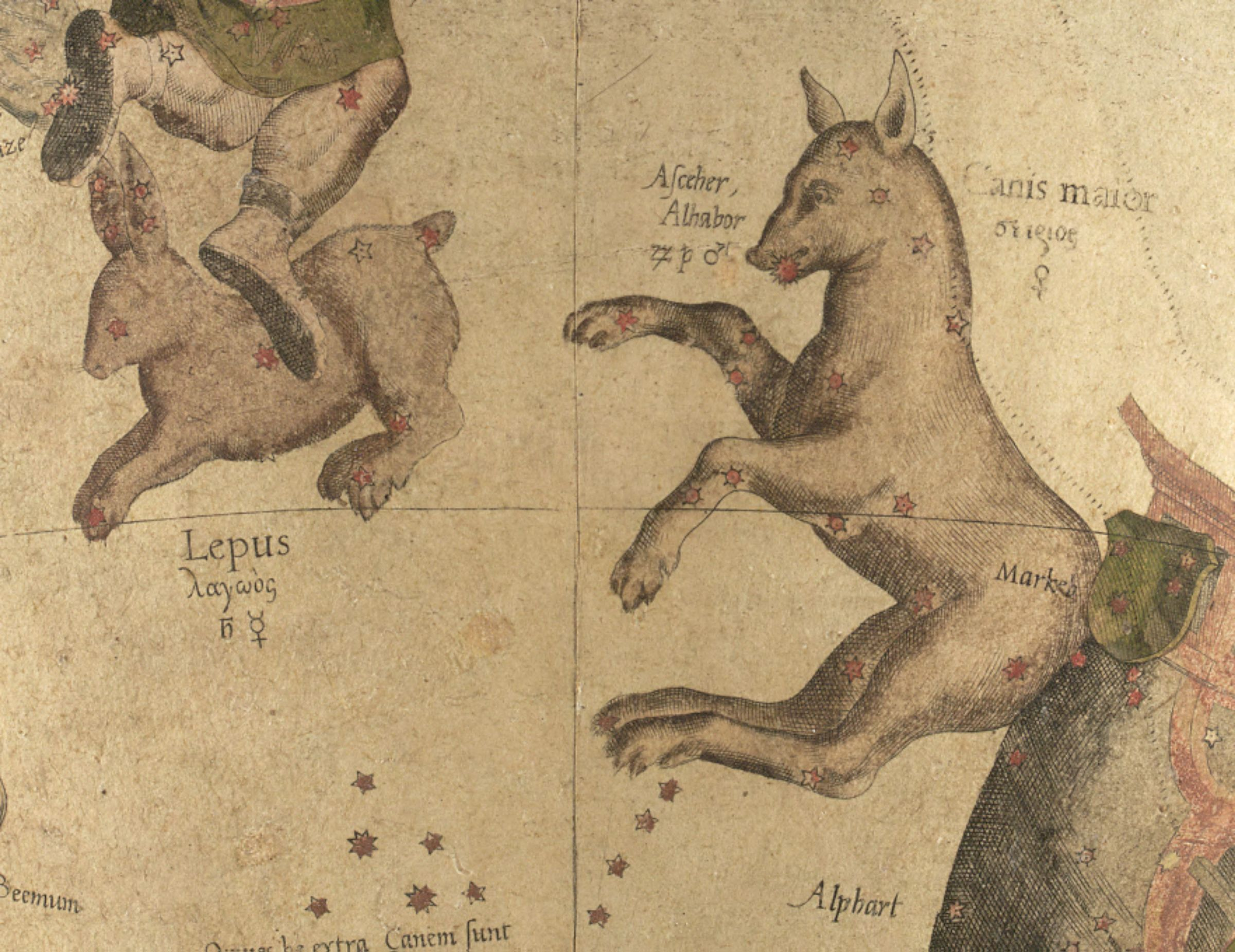 Lepus and Canis_Major constellations from the Mercator celestial globe.